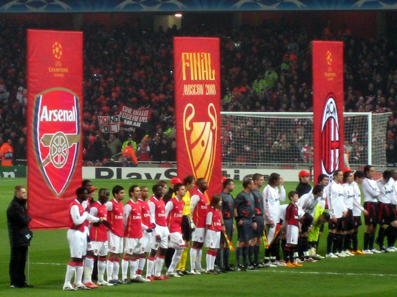 Champiosn League 2007-08 match between Arsenal FC and AC Milan, in the Emirates Stadium. Result was 0-0.